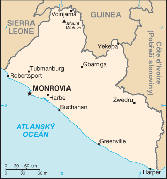 Map of Liberia with Czech description.